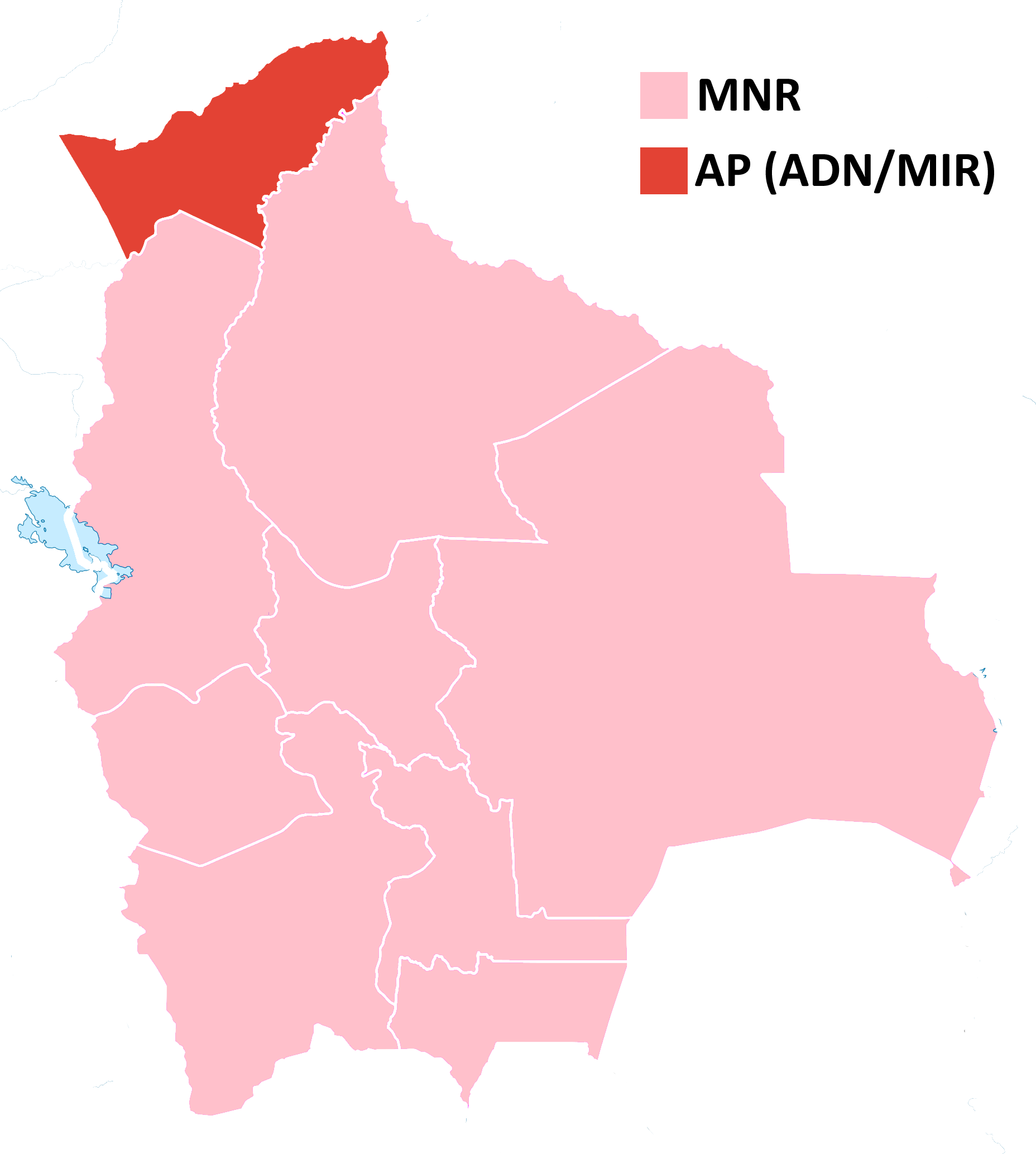 1993 Bolivian elections map